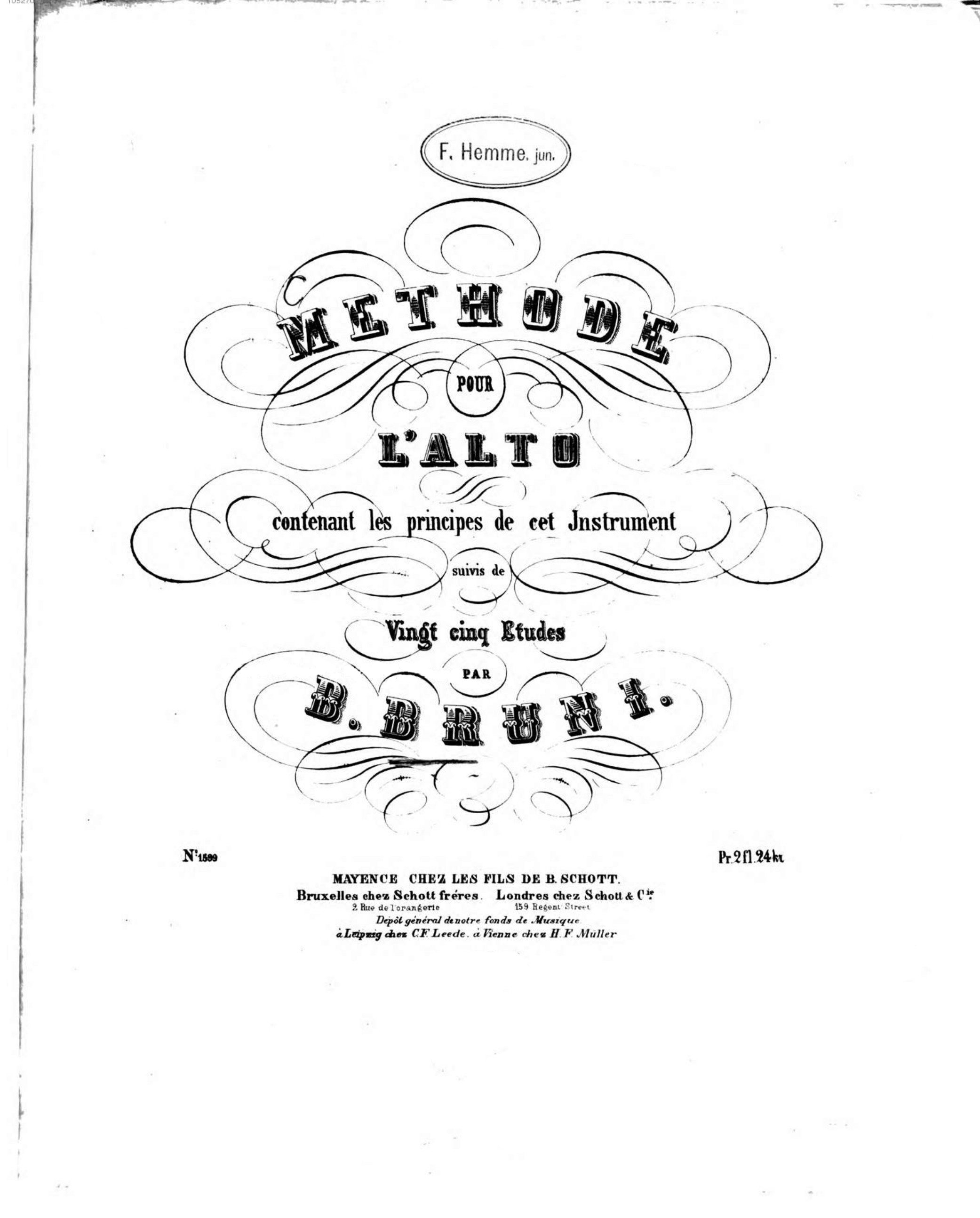 Front page of Métode d'Alto by Antonio Bartolomeo Bruni.